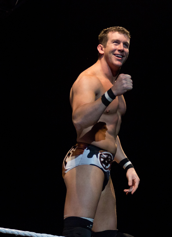 Ted DiBiase